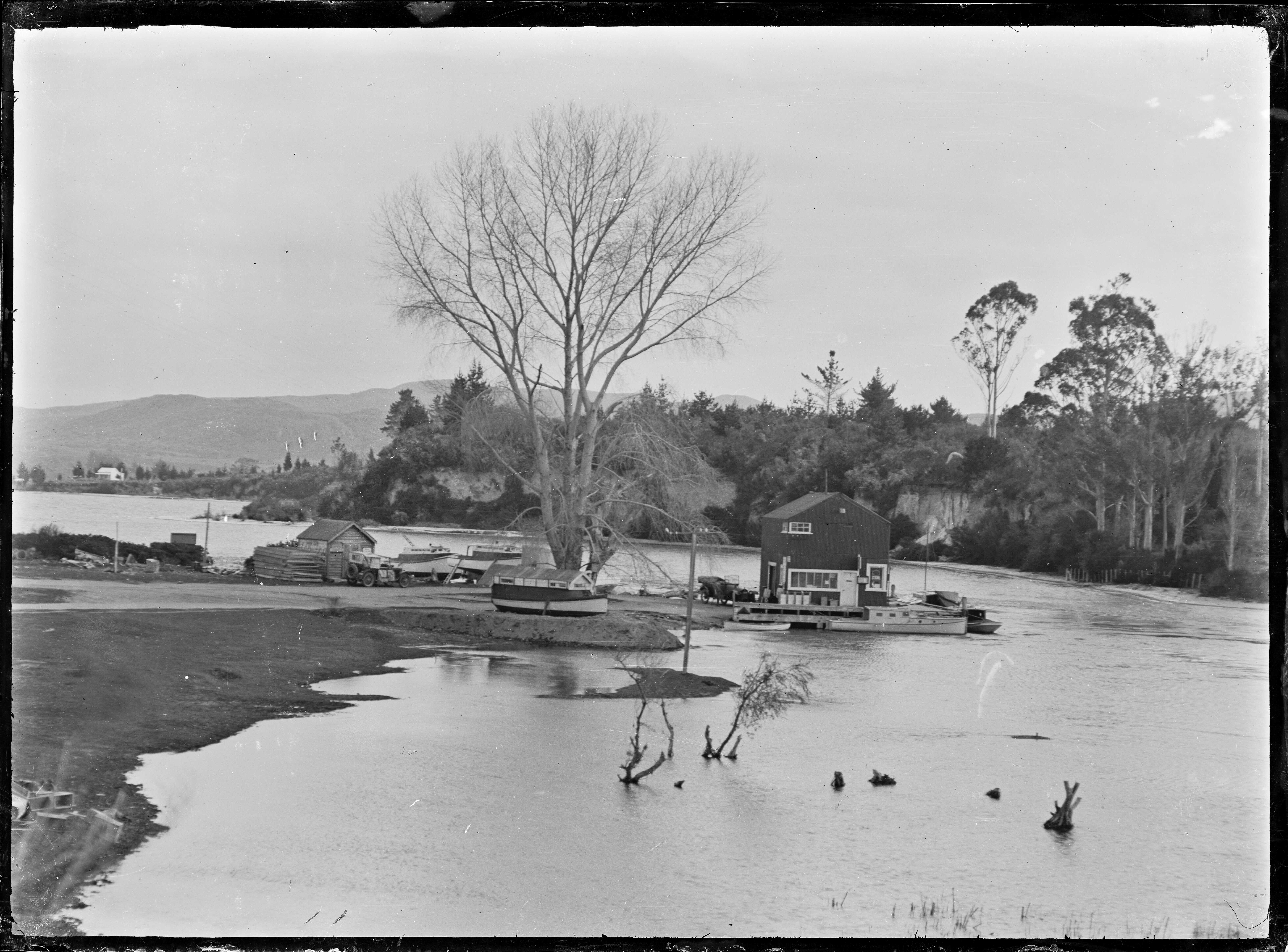 View of a wharf and small jetty on Lake Taupo at the point where the Waikato River leaves the lake. Photographed by Albert Percy Godber in 1928.